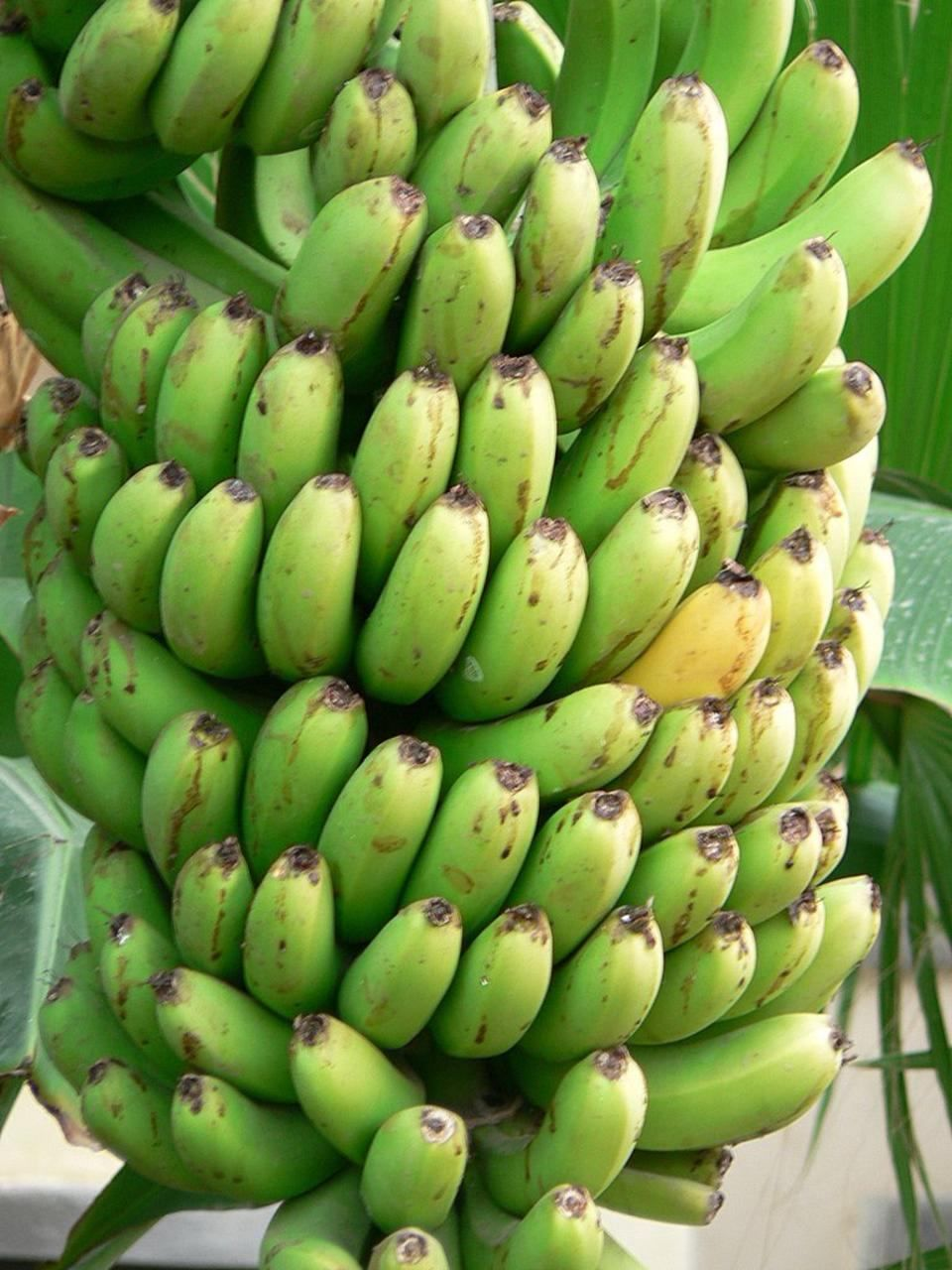 Image title: Green bananas Image from Public domain images website